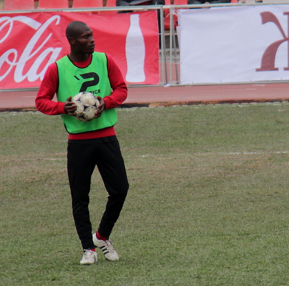 Kyrgyzstan national football team forward David Tetteh trains before the 2014 AFC Challenge Cup qualification match against Tajikistan